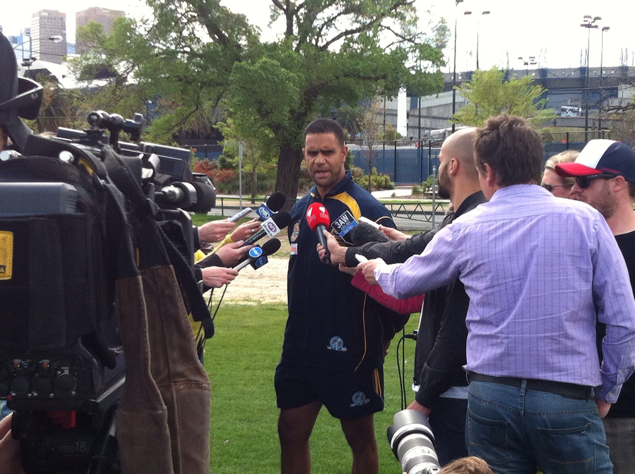 Michael O'Loughlin at an Australian press conference acting in his duty as coach of the Australian-Indigenous International Rules team